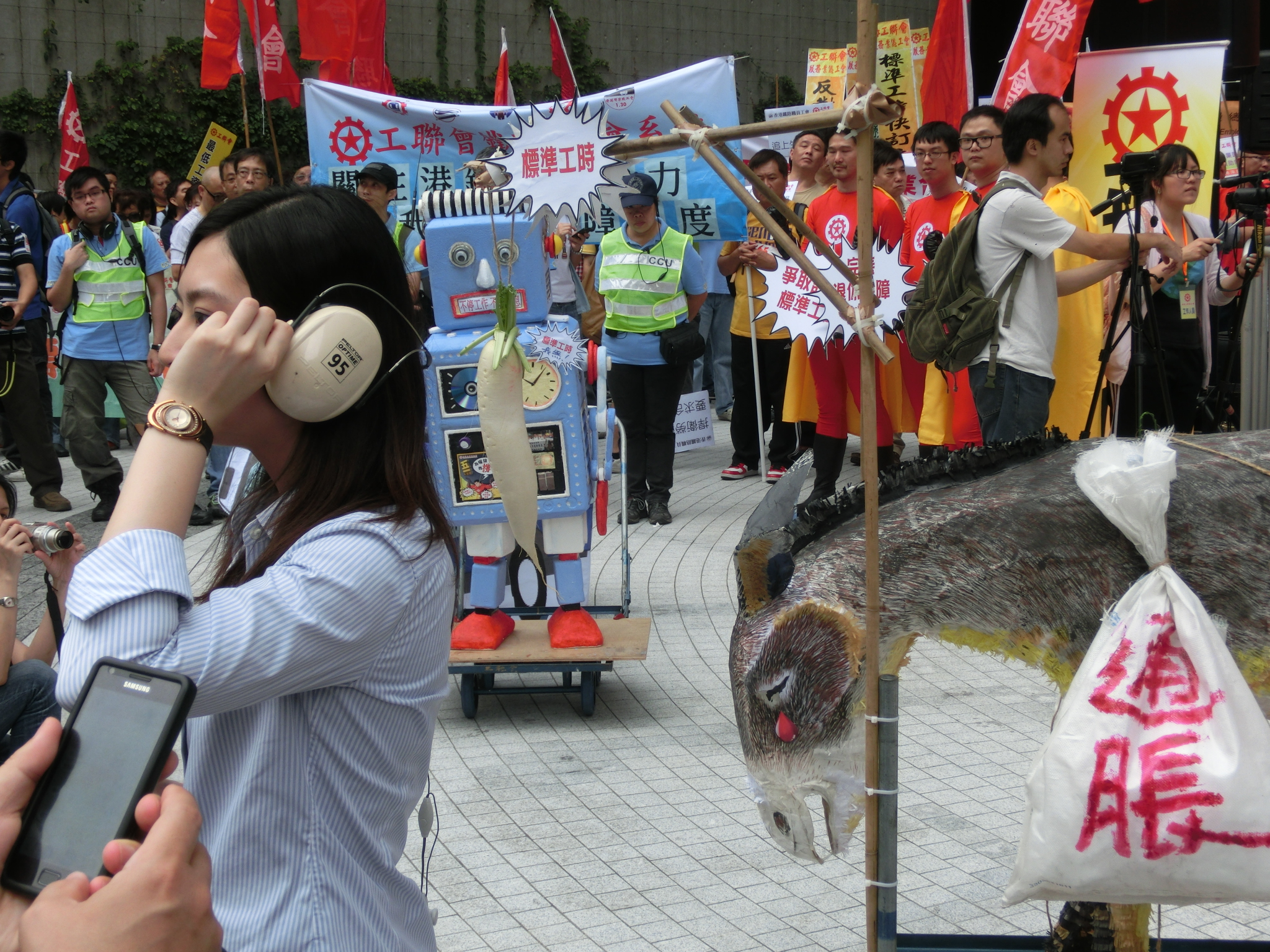 藍可盈 Lam Ho Ying, TVB staff at work, CGO Legco Carpark Square, Tim Mei Avenue, Admiralty, Hong Kong